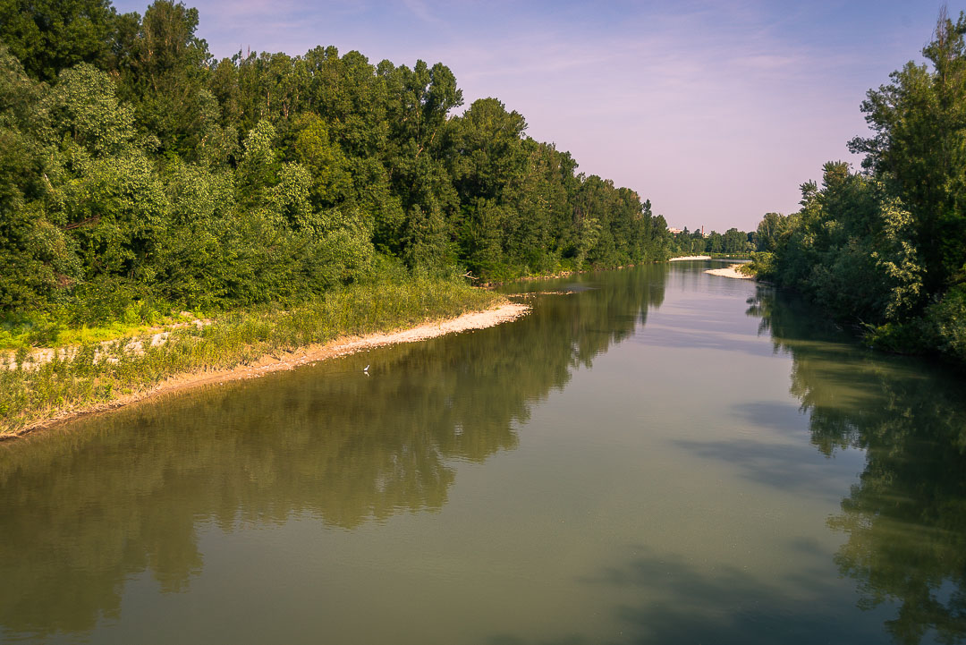 Crossing the bridge over Reno river, in Parco della Chiusa, near Bologna (Italy) This is a photo of a monument which is part of cultural heritage of Italy.